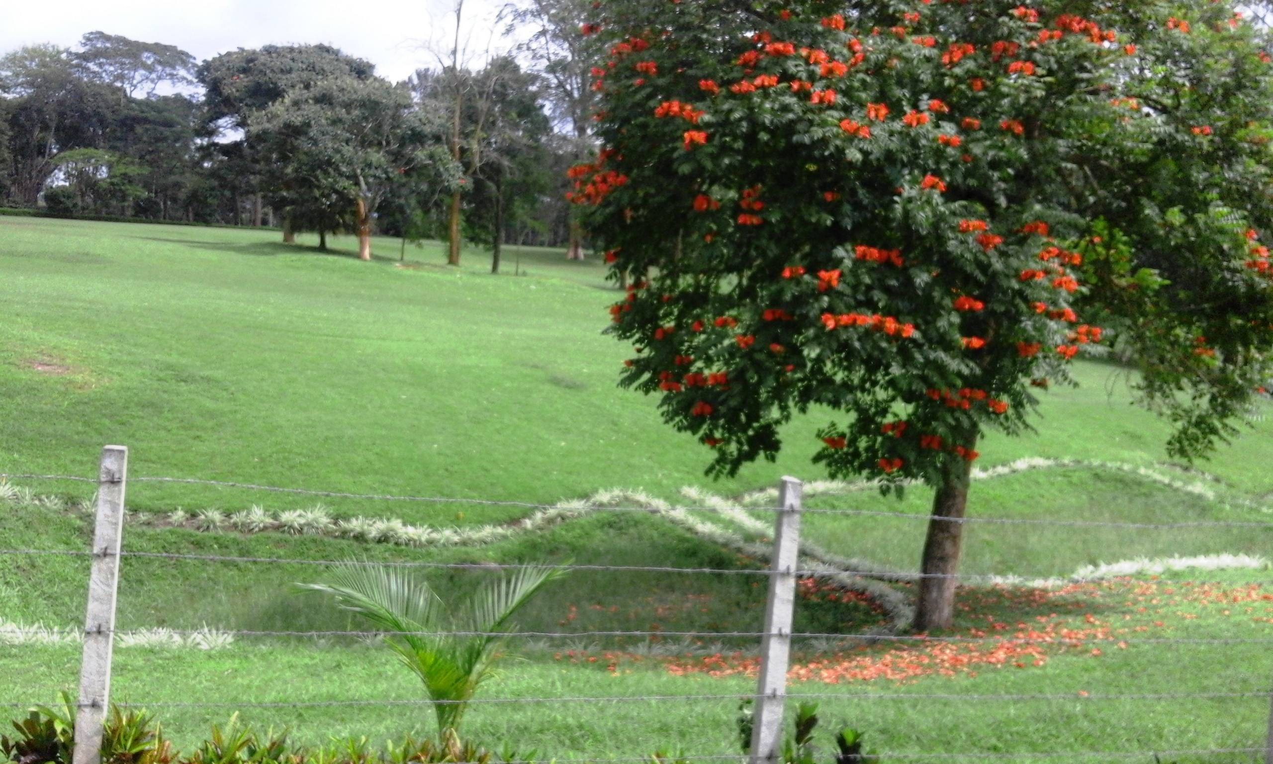 Gold Course at Tata Coffee estate, Pollibetta, Gonikoppal, Karnataka, India.